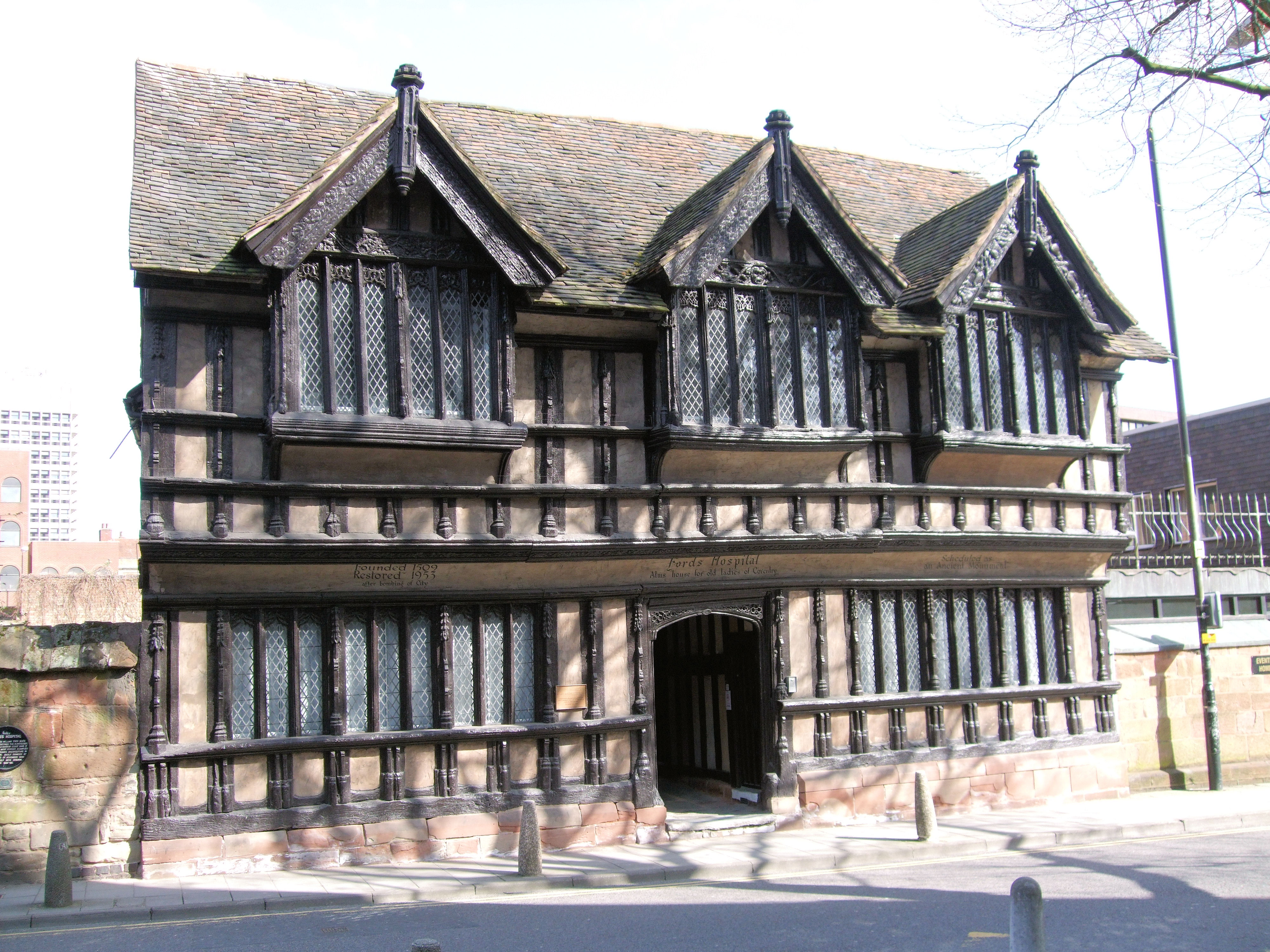 This hospital or "almshouse" provided sheltered accommodation for elderly people and was founded in 1509 by William Ford. Originally it housed five aged men and one woman, but was further endowed in 1517 to provide shelter for six couples, and again in 1529 by William Wigston for five more old couples with a small weekly allowance. Location for the Dr Who episode The Shakespeare Code.